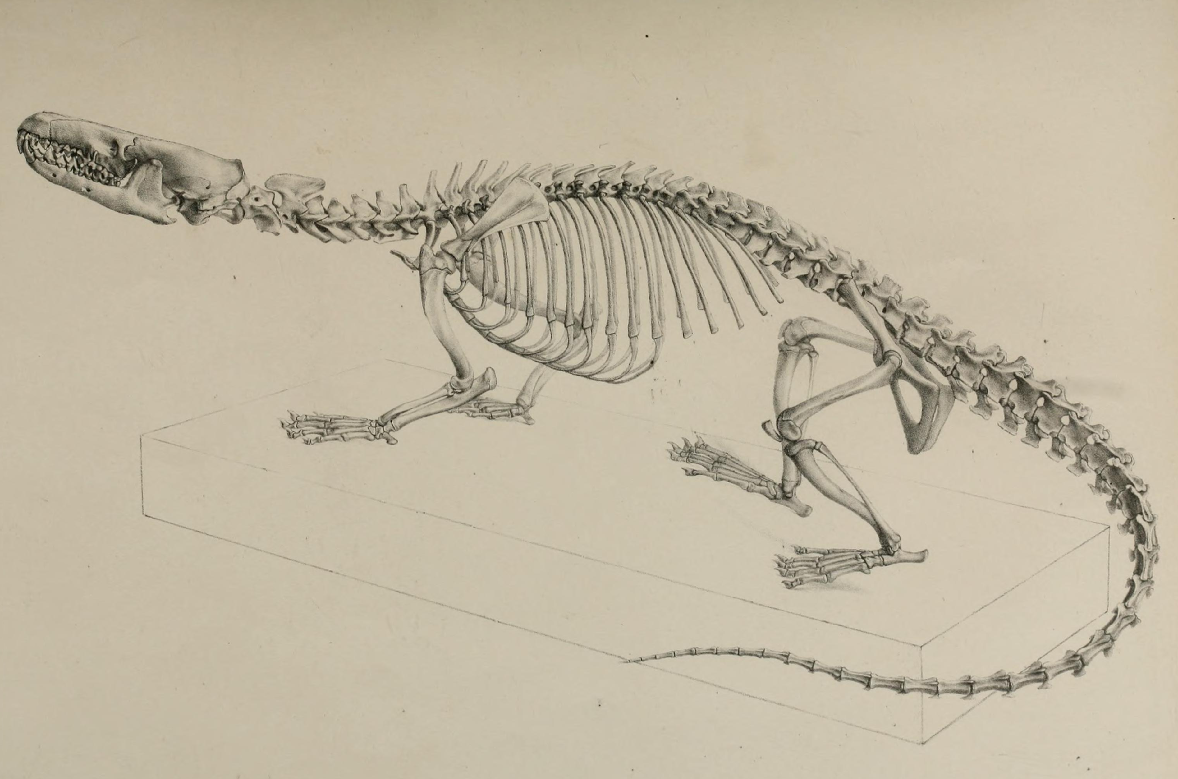 Skeleton of the Giant Otter shrew, published by George J. Allman 1866